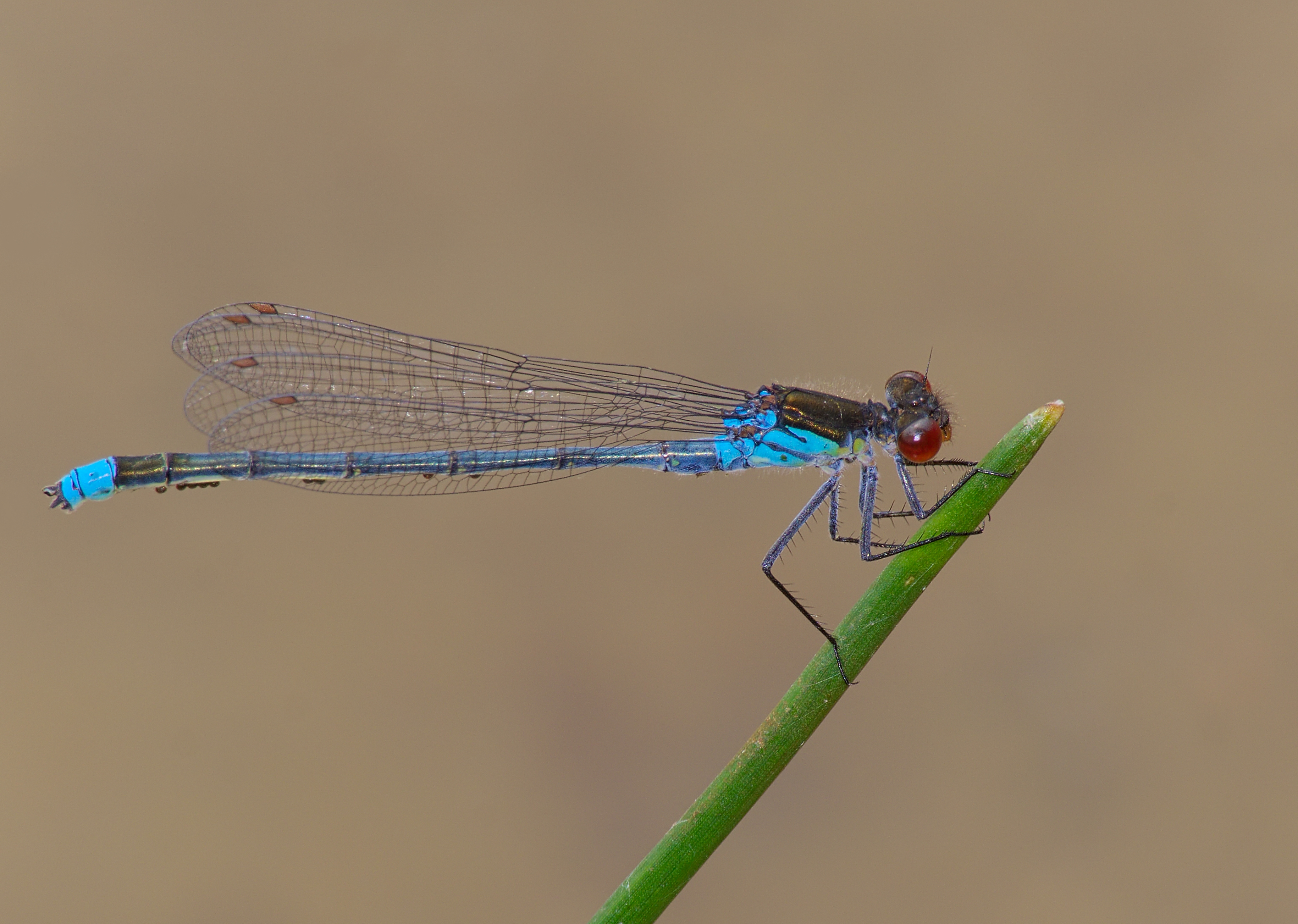 Red-eyed damselfly - Erythromma najas, male. Taken by the Presseler Teich in Pressel, Laußig, Saxony, Germany.